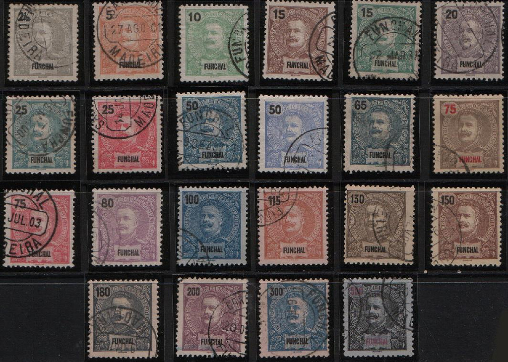 Funchal 1897 Sc13-34 set